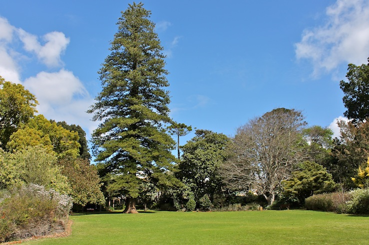 Arderne Public Gardens, Main Road, Claremont, Cape Town This media shows a South African Protected Site with SAHRA file reference 9/2/111/0054.